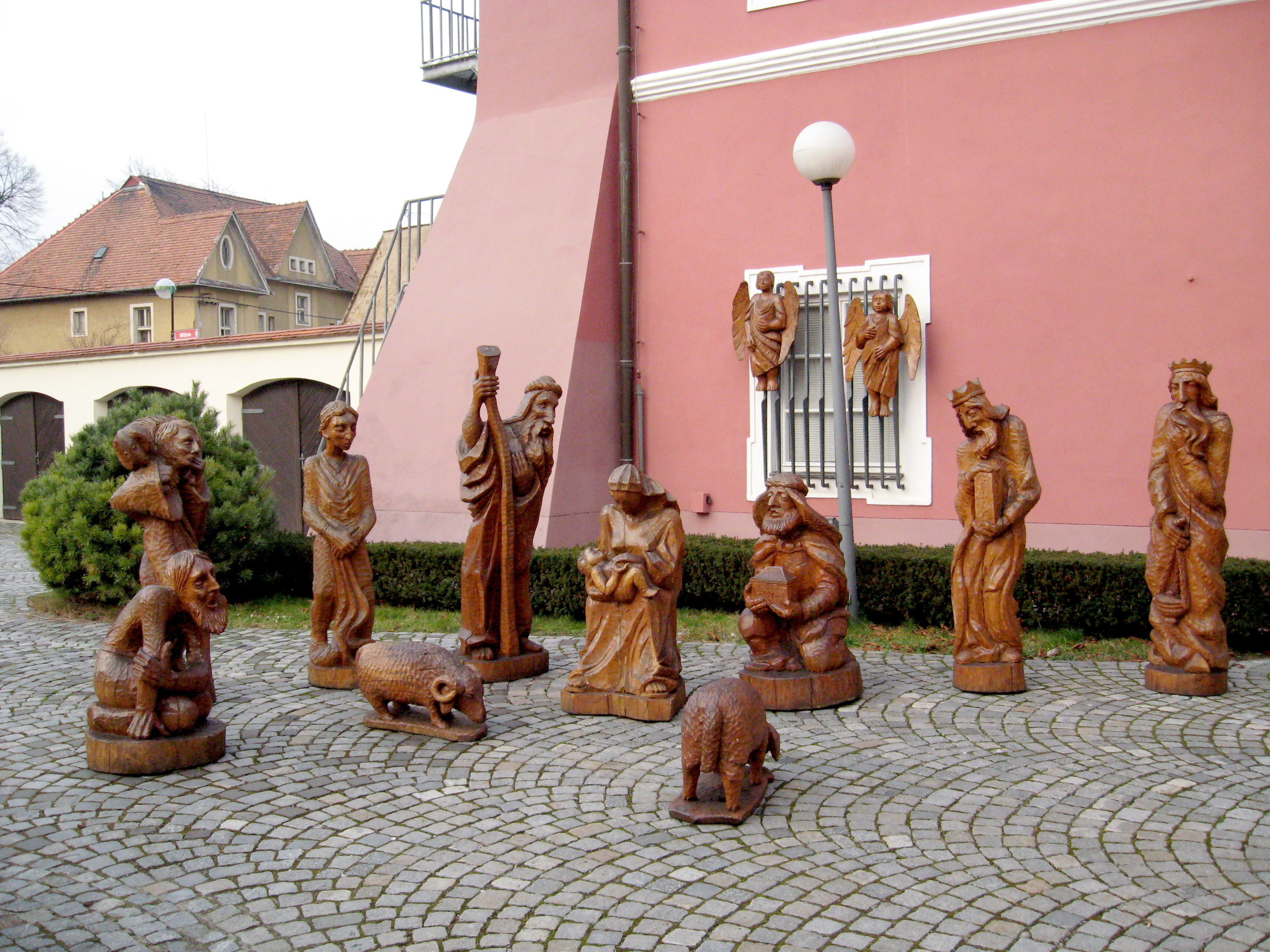 Nativity Scene Exhibition Uherske Hradiste in 2008. Nativity scene from Sculpture symposium of Plavecky Stvrtok in 2003.